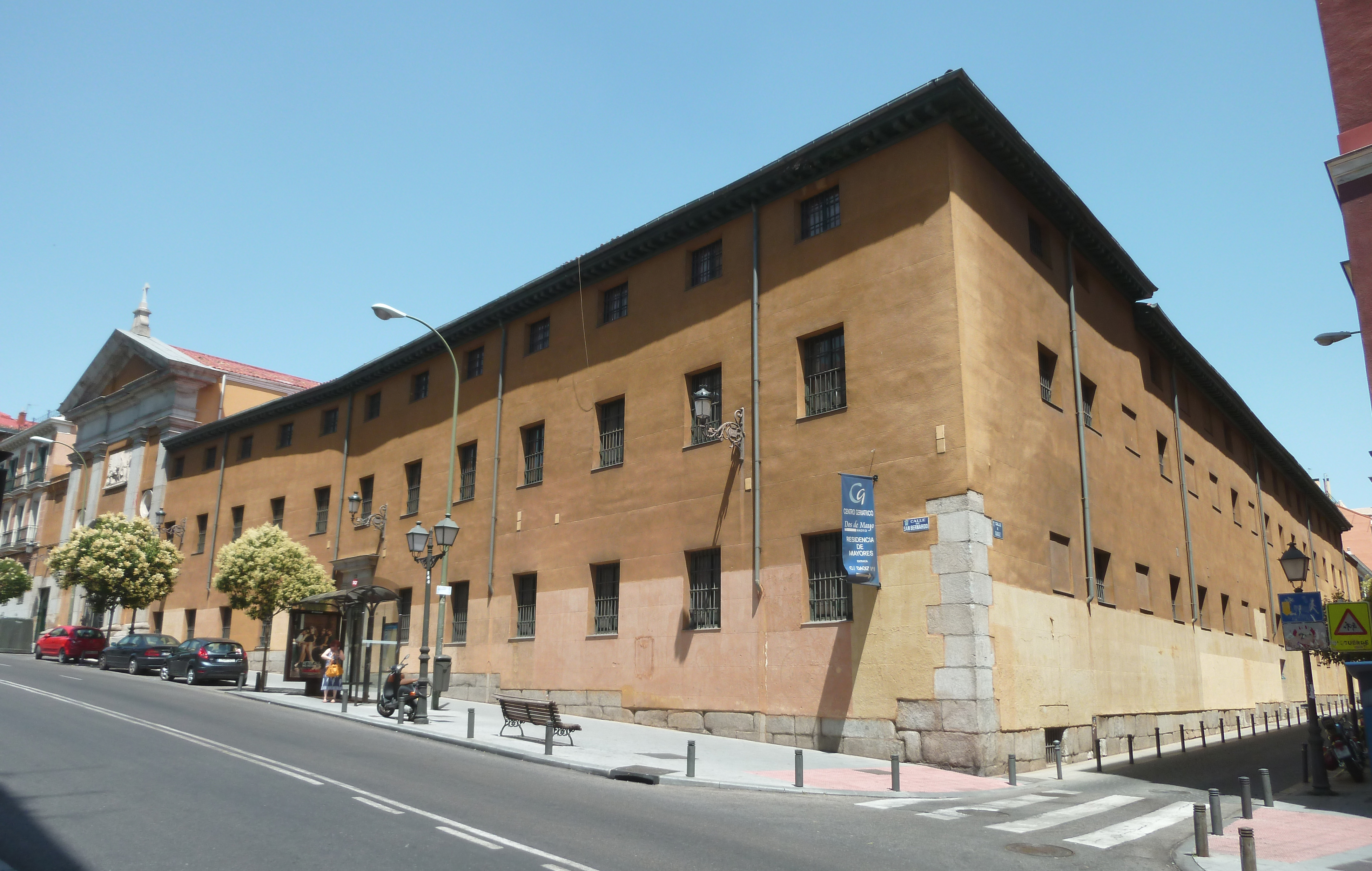 Façade of the Monastery of the Visitation and Church of St. Francis de Sales in Madrid (Spain), at 72 Calle de San Bernardo (street) in Centro district. Building was projected in 1794 by Manuel Bradi and built between 1798 and 1801.